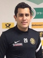 Edmar Figueira at FC Oberneuland, Bremen, Germany, 2012